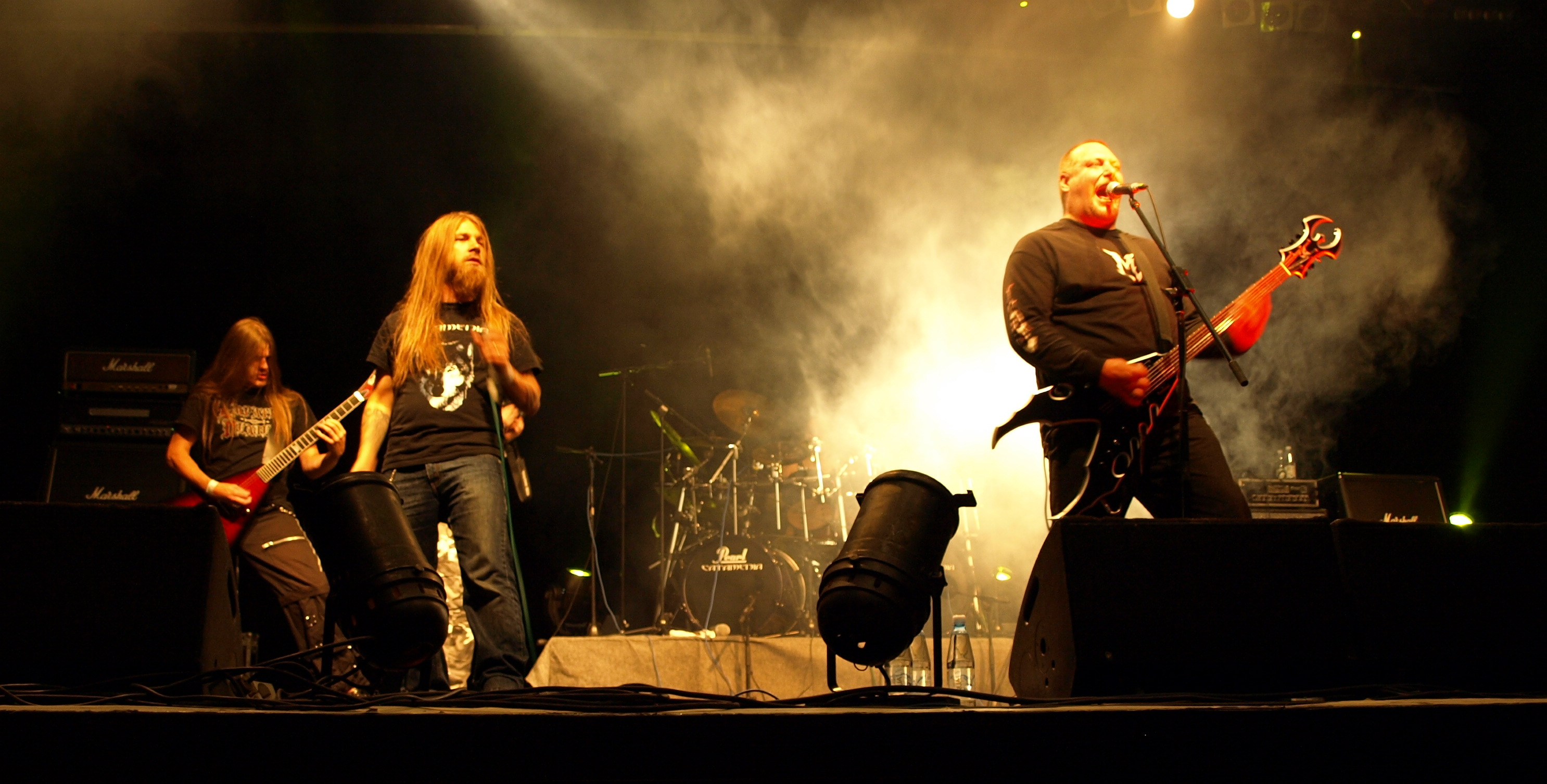 Black metal band Catamenia live at Jalometalli 2008 in Oulu.